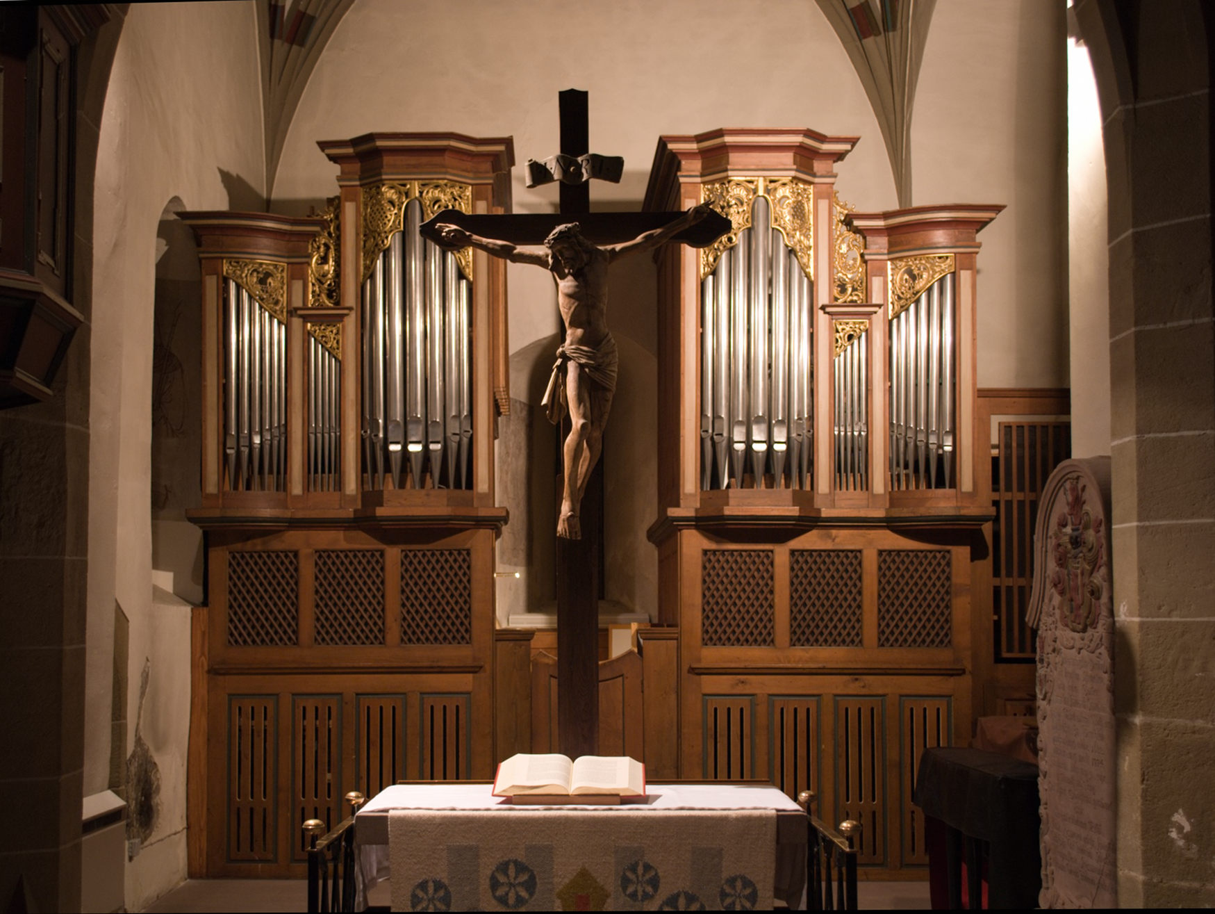 Total view of the pipe organ in St. Oswald church, Stuttgart-Weilimdorf, Germany